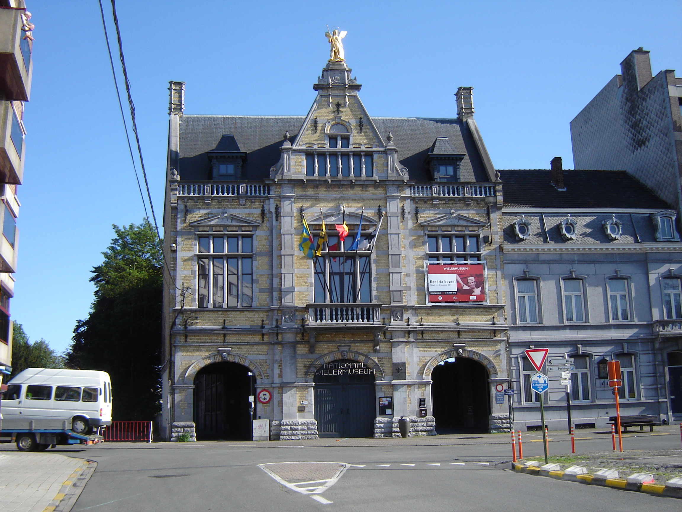 "Nationaal Wielermuseum" (National Cycling Museum), in Roeselare, West Flanders, Belgium